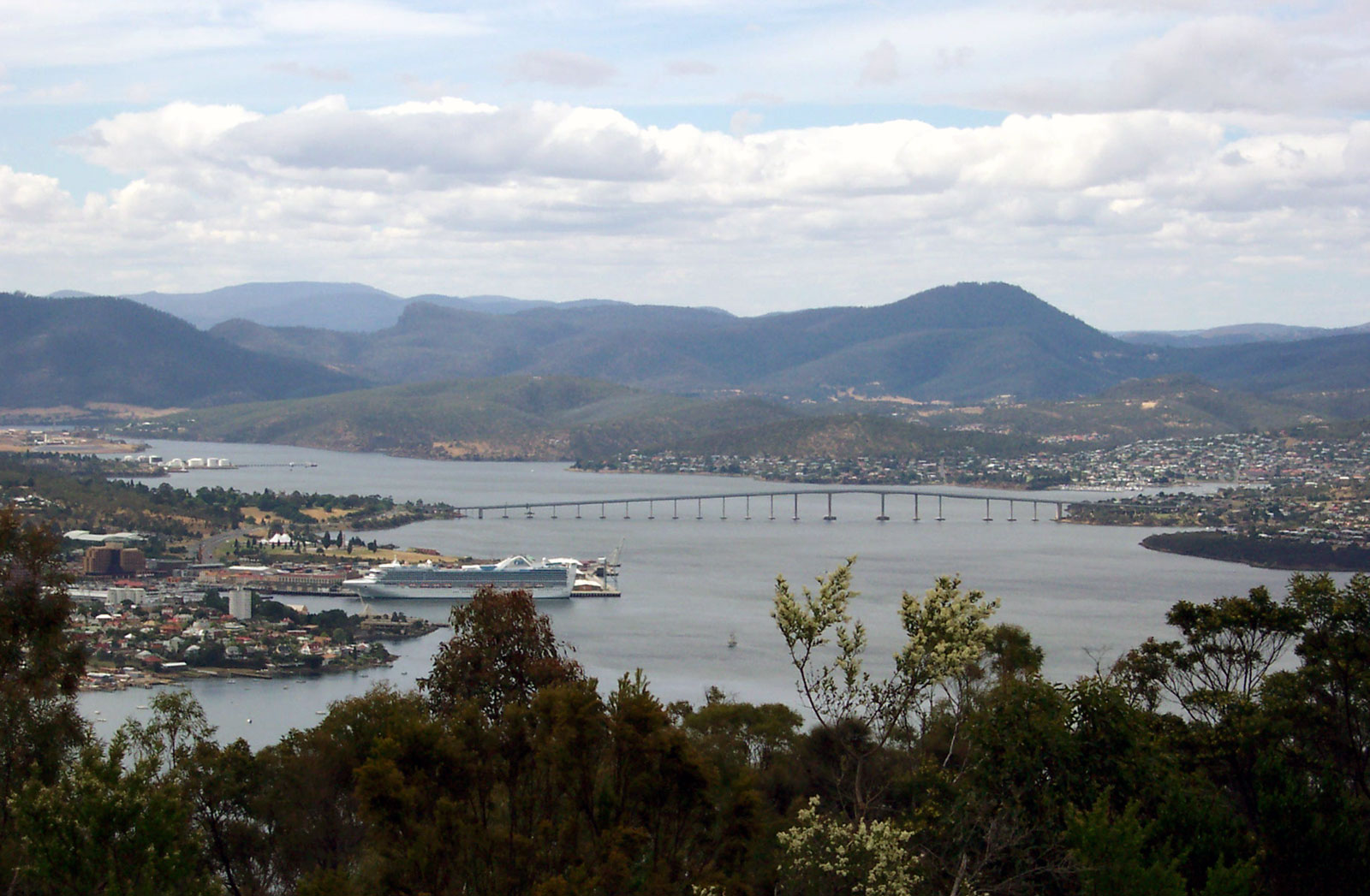 Tasman Bridge, Hobart, Tasmania Taken by Enoch Lau on 11 January 2004. As a courtesy, please let me know if you alter this image or this image description page. Original filename was 100_2316.JPG.